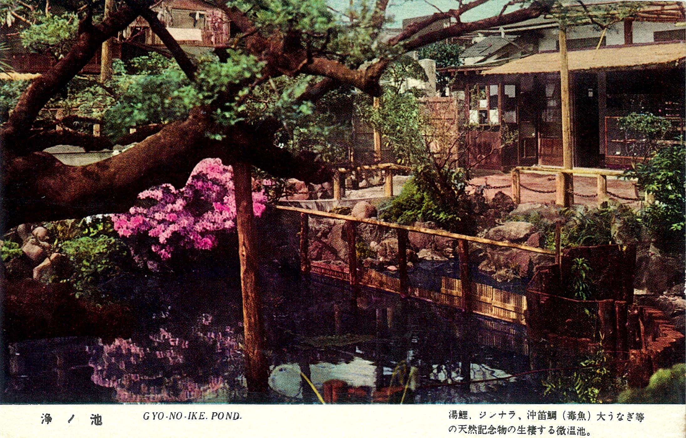 Jono-ike pond postcard.1956